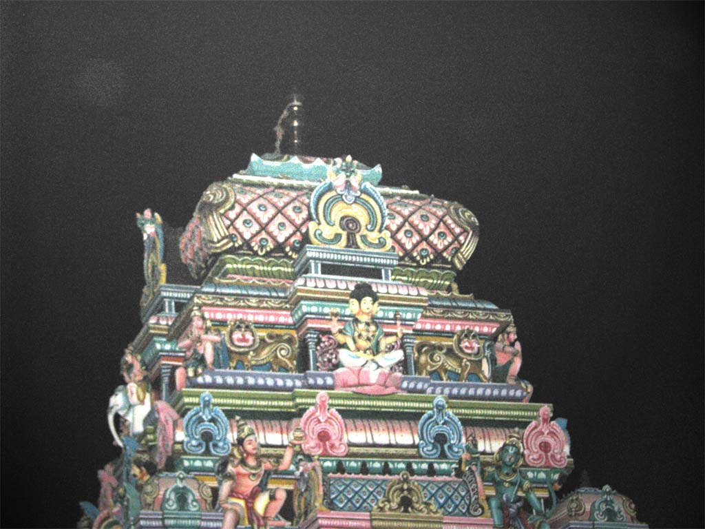 main gopuram of the temple Sri varadharaja perumal kovil located in keezha thiruvenkatanatha puram tirunelveli